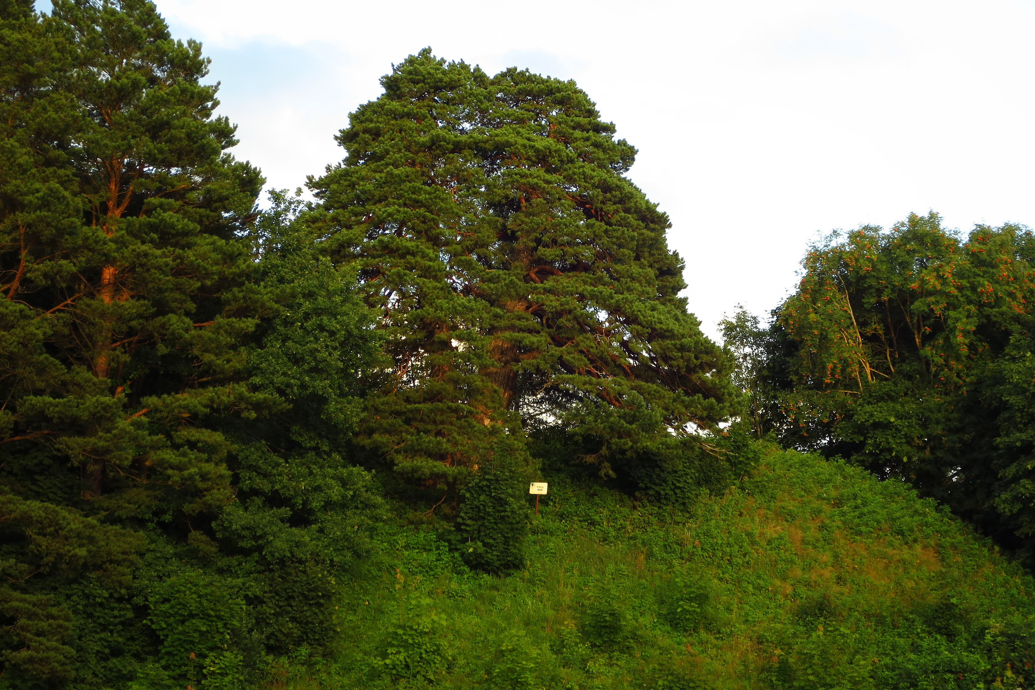 Padaoru mänd Padaoru maastikukaitsealal 2016. aastal